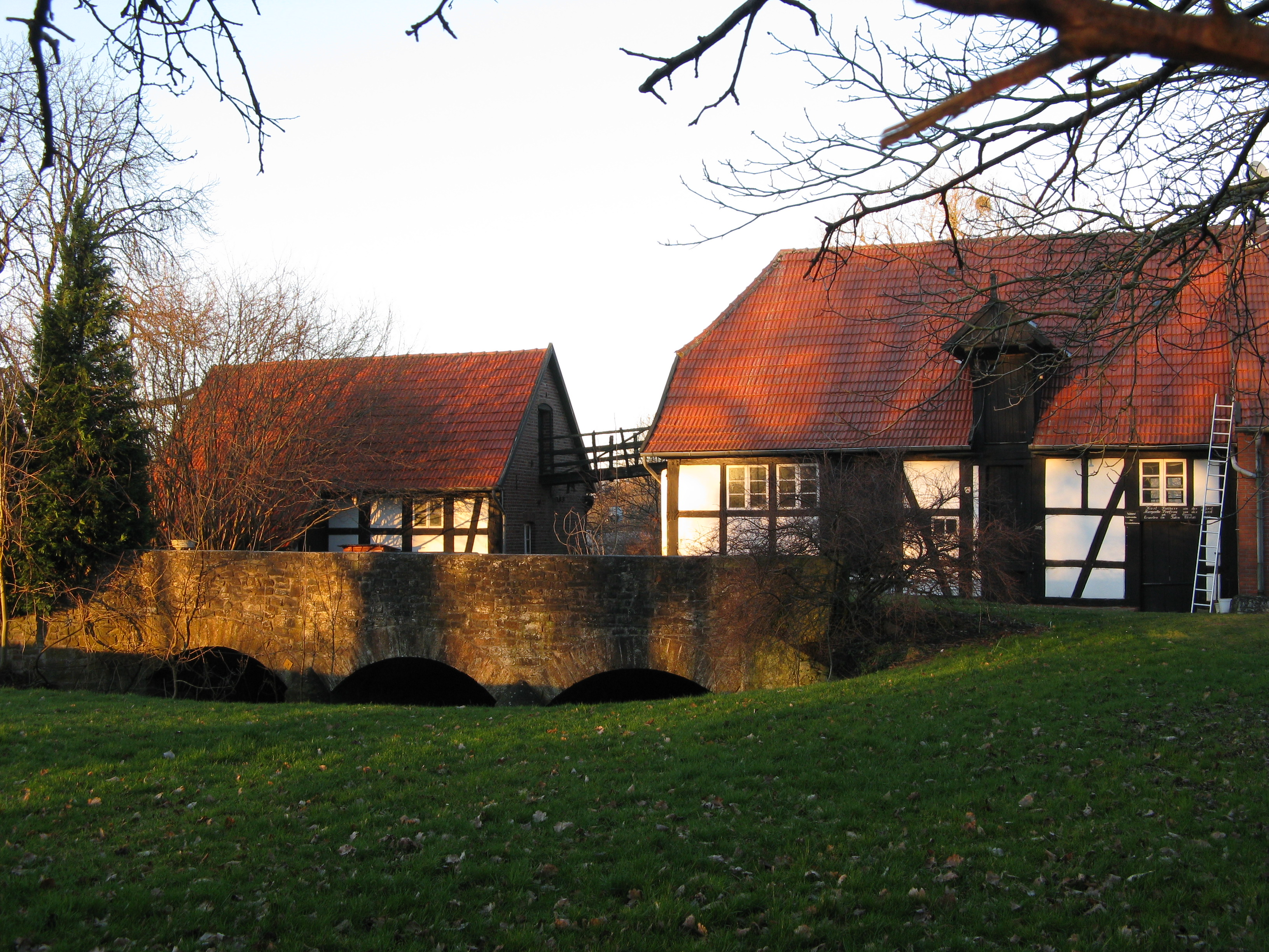 This image shows a heritage building in Germany, located in the North Rhine-Westphalian city Espelkamp (no. 1).